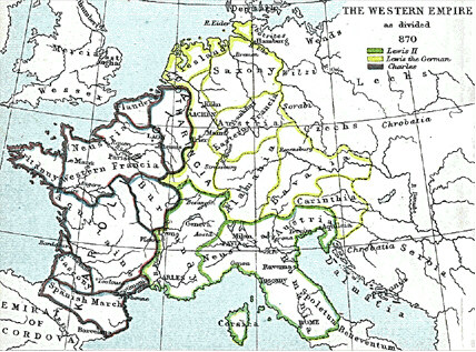 Frank king Charlemagne's kingdom survived the leader and covered much of Western Europe from 795 until 843 when a treaty split it amongst his grandsons: Central Franks ruled by Lothar I (green), East Franks ruled by Louis the German (yellow), and Charles the Bald led West Franks (purple). This particular map is from the Atlas to Freeman's Historical Geography, edited by J.B. Bury, Longmans Green and Co. Third Edition 1903. It is in the public domain and you may download it or print it for any use.